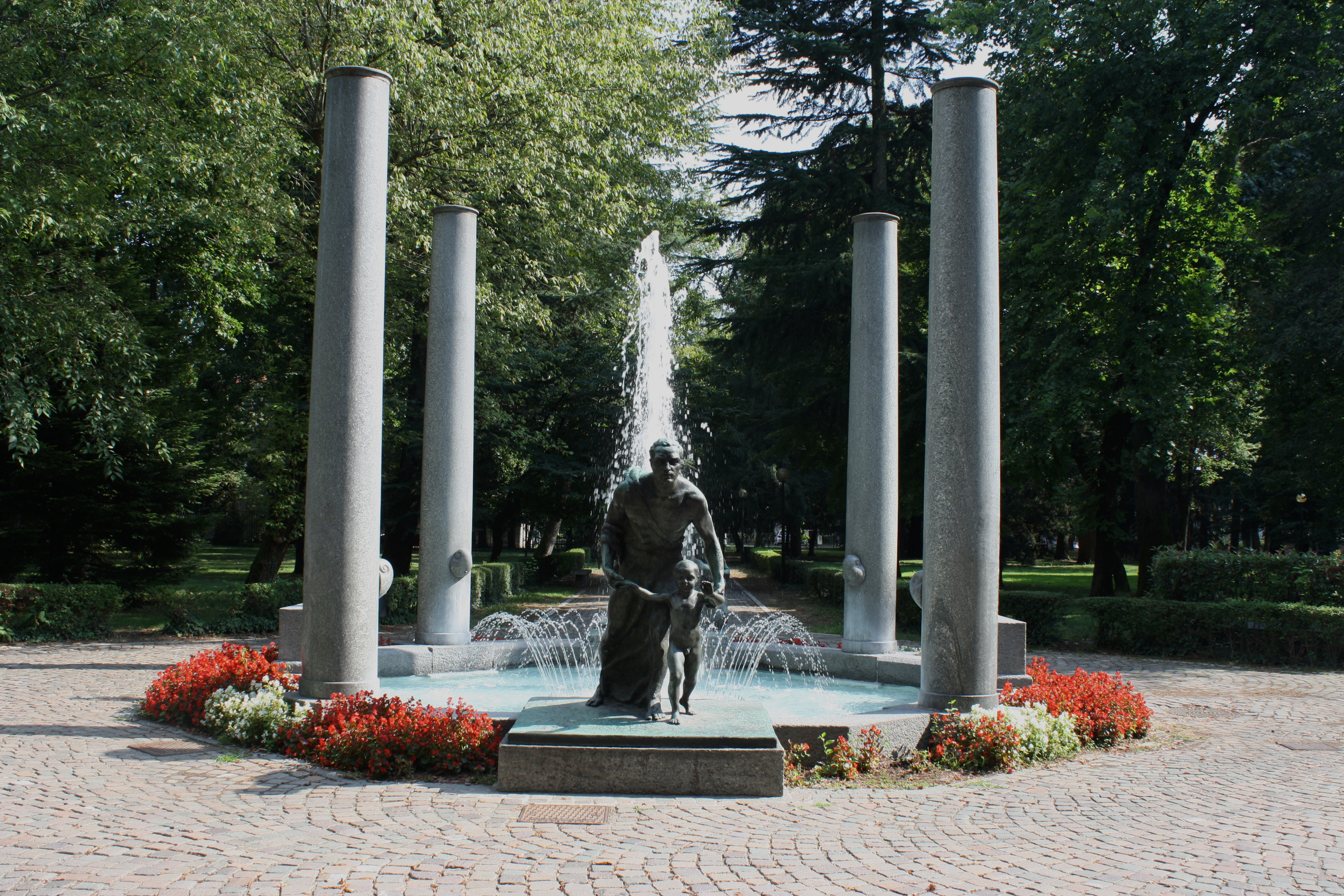 The fountain in the villa Gonzaga park, Olgiate Olona, Varese, Italy.